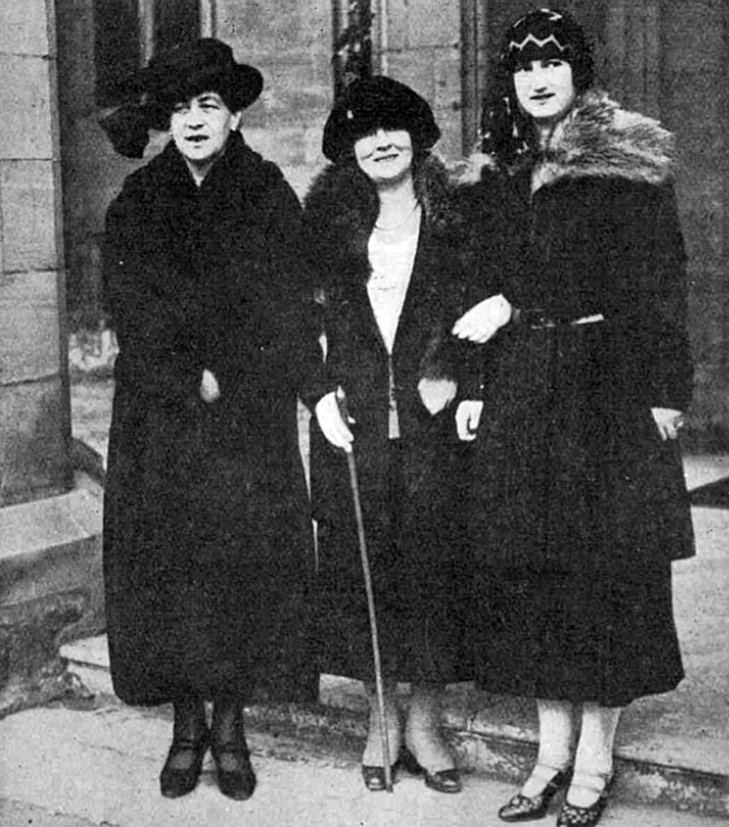 Agnes Elizabeth Marsh (centre) at Warwick Castle 1922